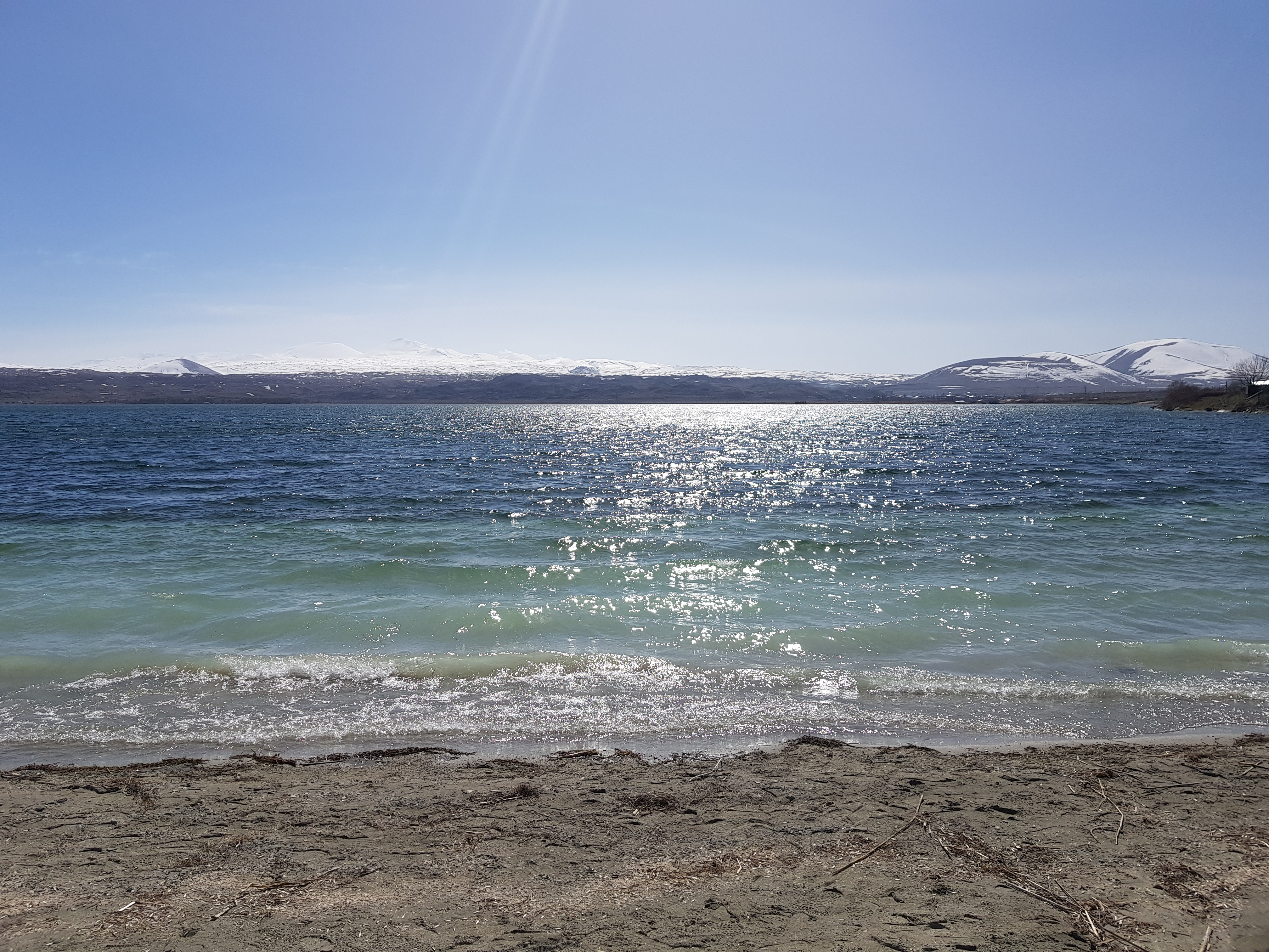 Lake Sevan in March